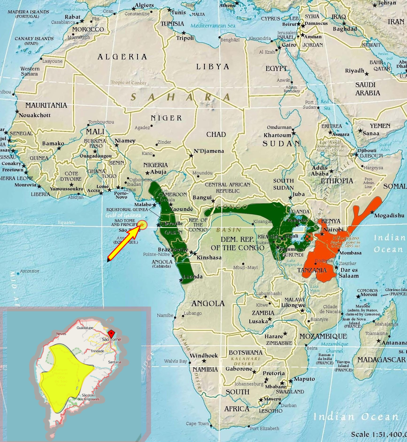 Distribution Map of L. cabanisi (orange), L. mackinnoni (green) and L. newtoni (Yellow arrow and small Map left below)